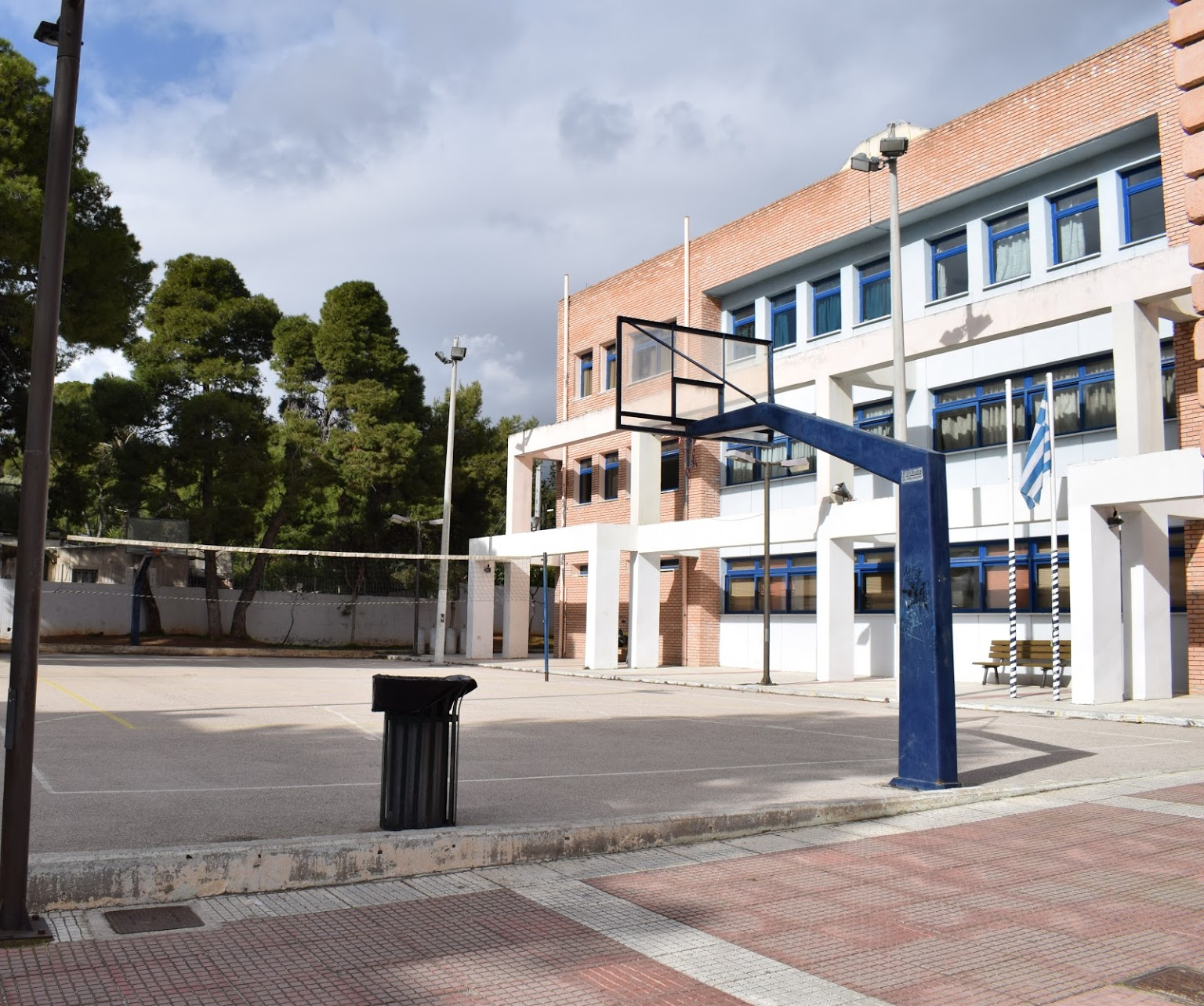 The courtyard of the Ilion Music School.